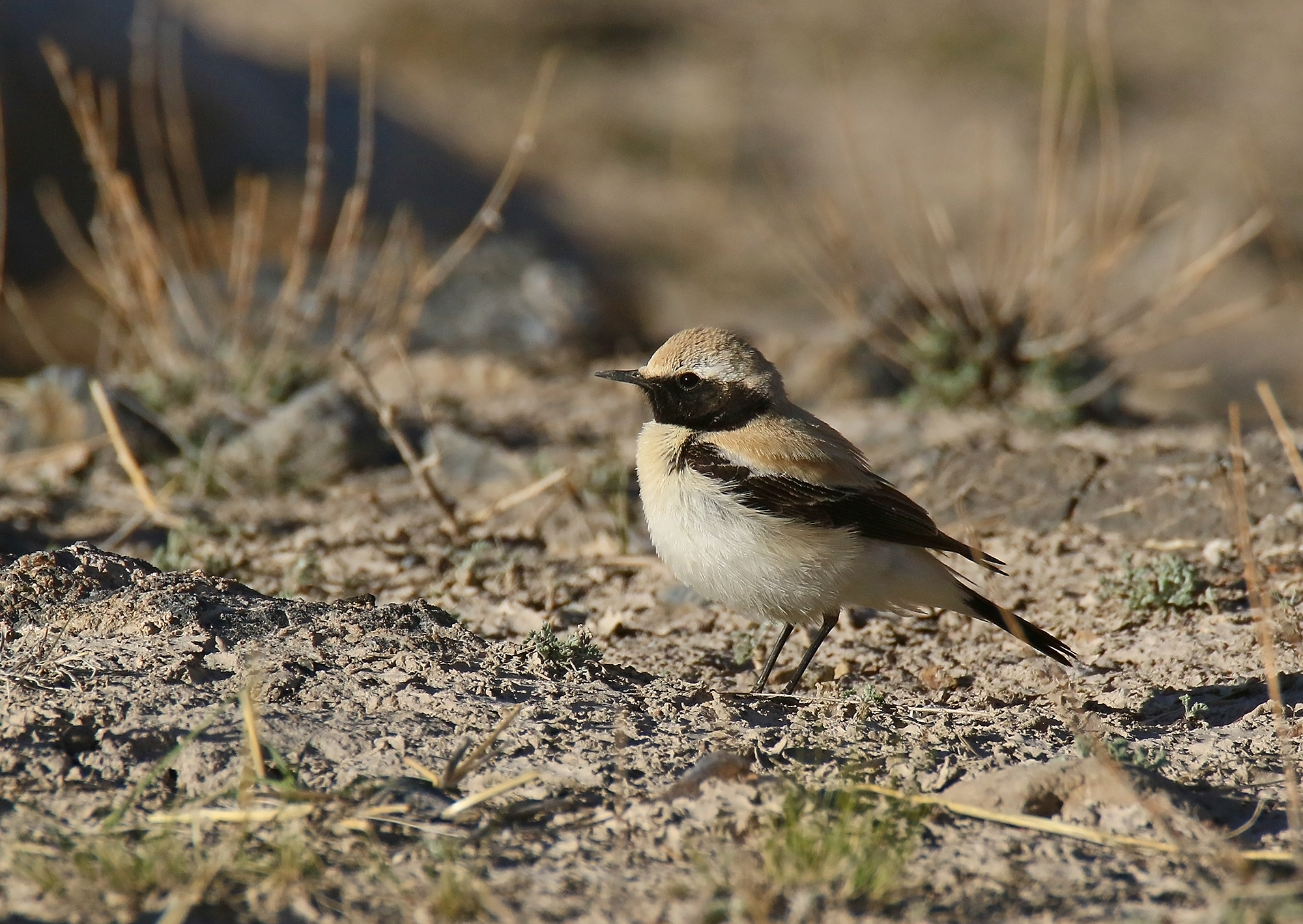 Desert Wheatear (Oenanthe deserti) captured at Reshit, Chapursan, Gojal, Gilgit-Baltistan, Pakistan with Canon EOS 7D Mark II